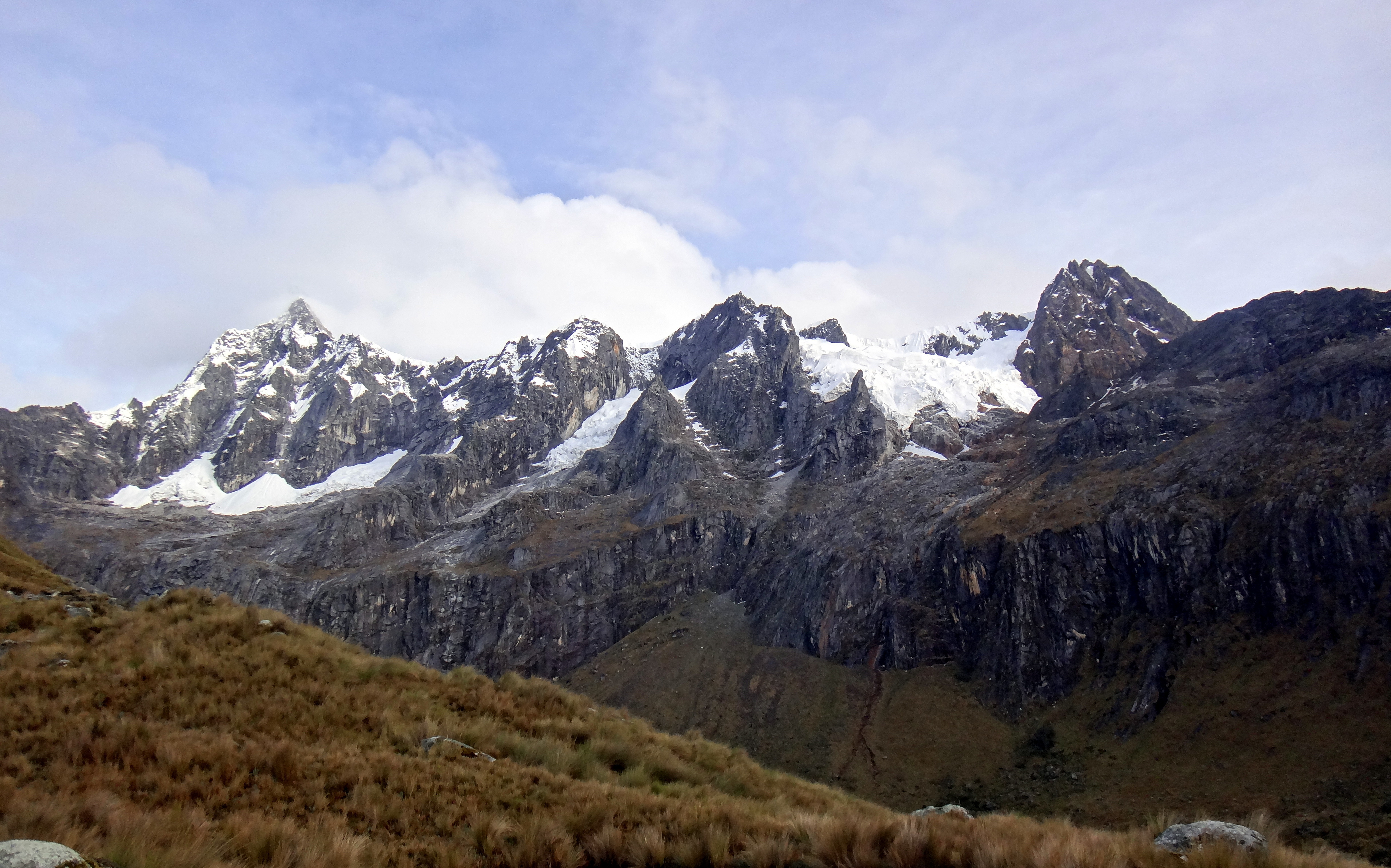 View from the Santa Cruz Trek, Peru, below Point Union